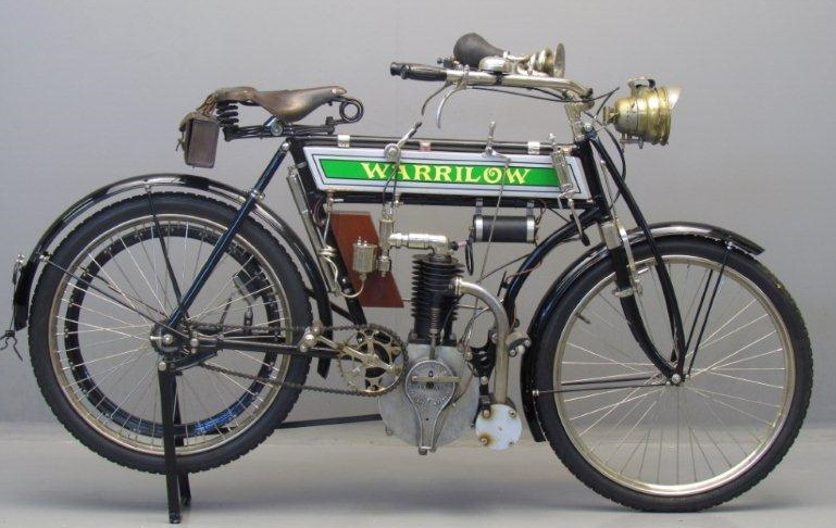 Warrilow 454 cc motorcycle with Quadrant engine from 1906